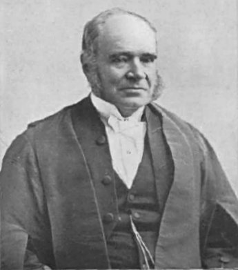 Joseph Curran Morrison Title: Commemorative biographical record of the county of York, Ontario: containing biographical sketches of prominent and representative citizens and many of the early settled families Creator: J.H. Beers & Co Publisher: Toronto : J.H. Beers & co Date: 1907